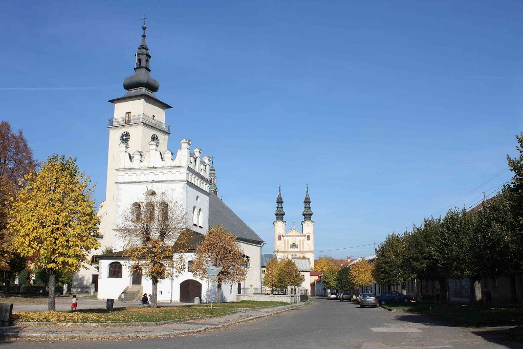 Podolínec St. Mary in Kalwaria Zebrzydowska